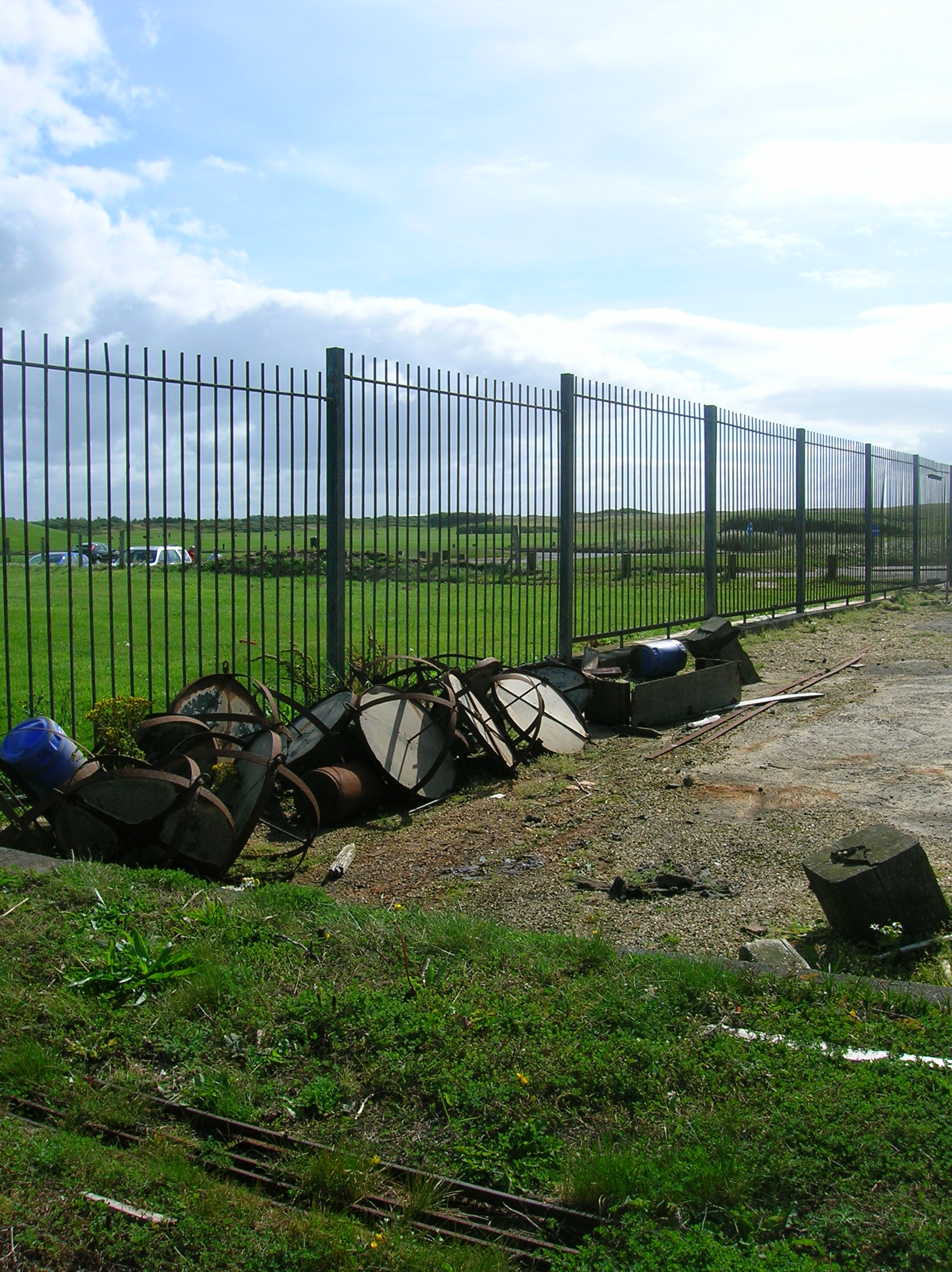 A view of the remains of the balls from the Boyd's Automatic tide signalling apparatus. Irvine, North Ayrshire, Scotland. Model railway trackwork is visible in the foreground.Rosser 19:23, 26 August 2007 (UTC)